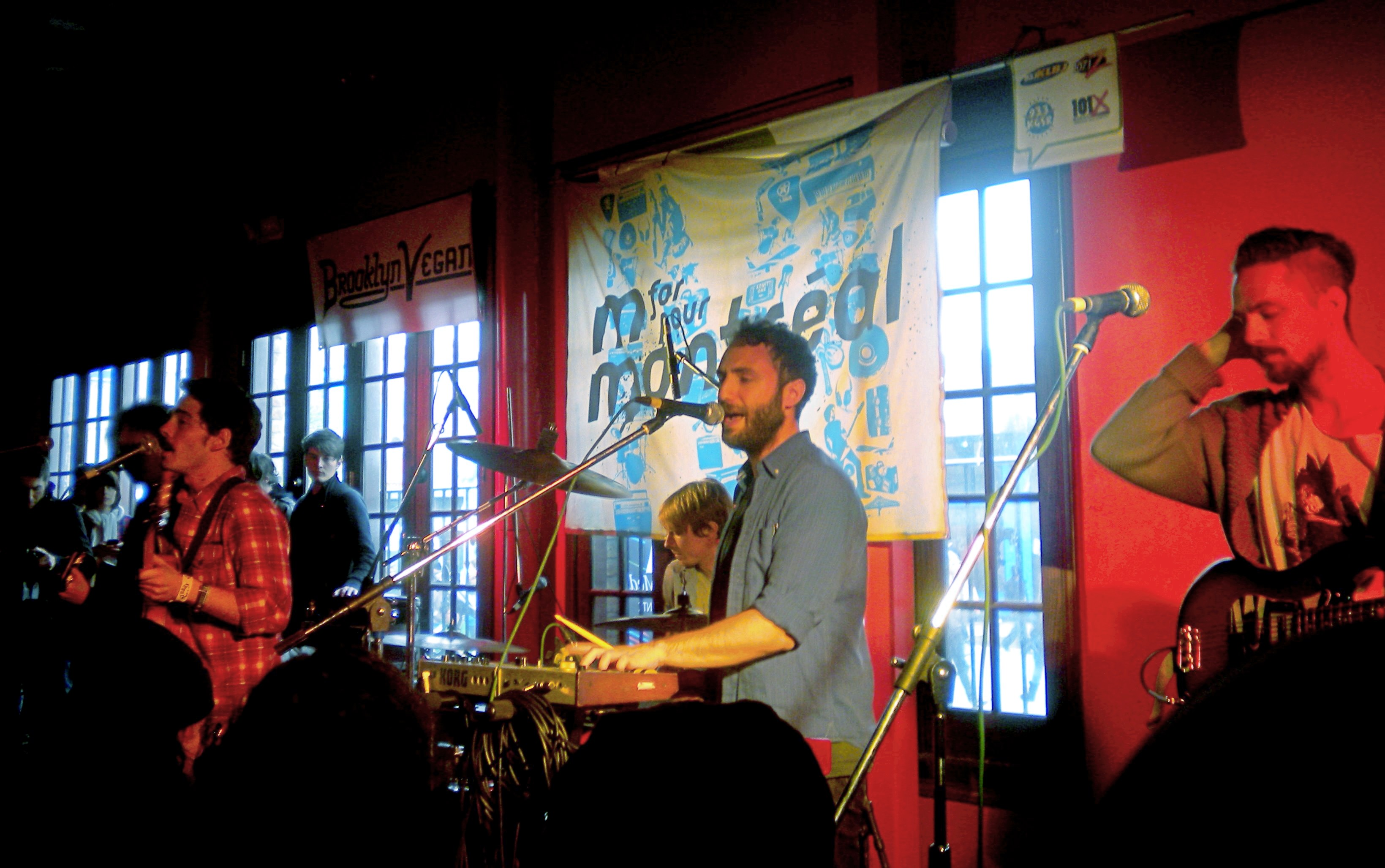 Local Natives performing at Galaxy Room during SXSW on March 20th, 2010 on Sixth Street in Austin, Texas.